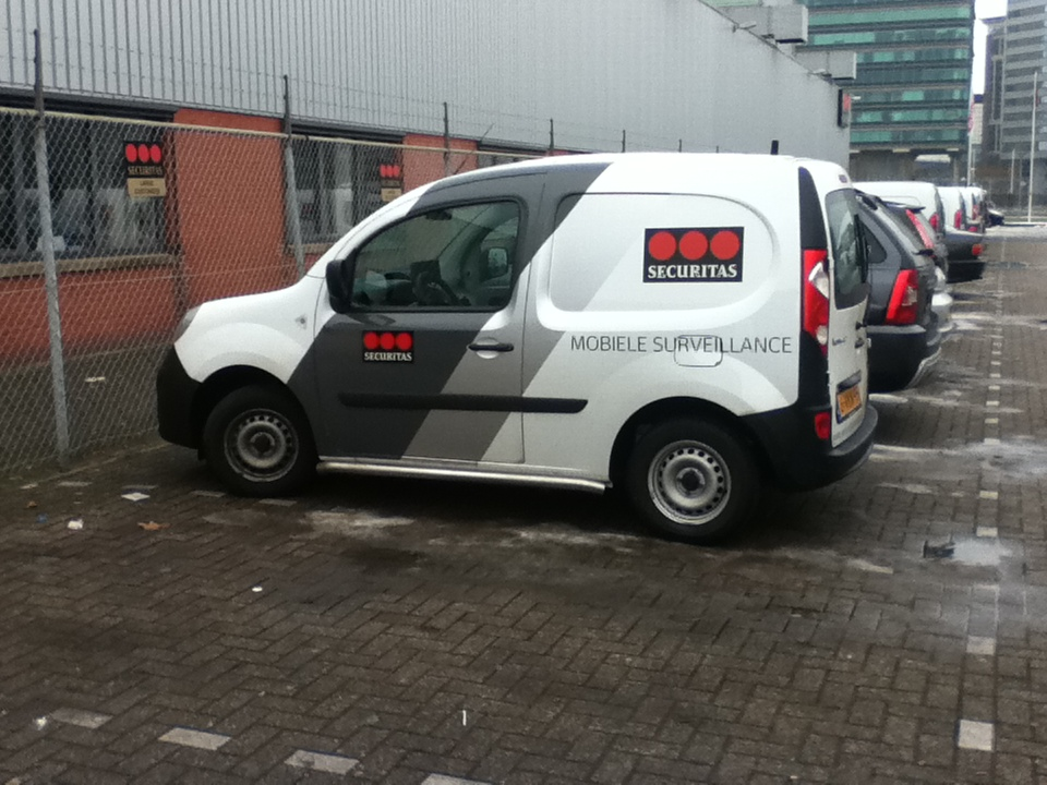 new cars